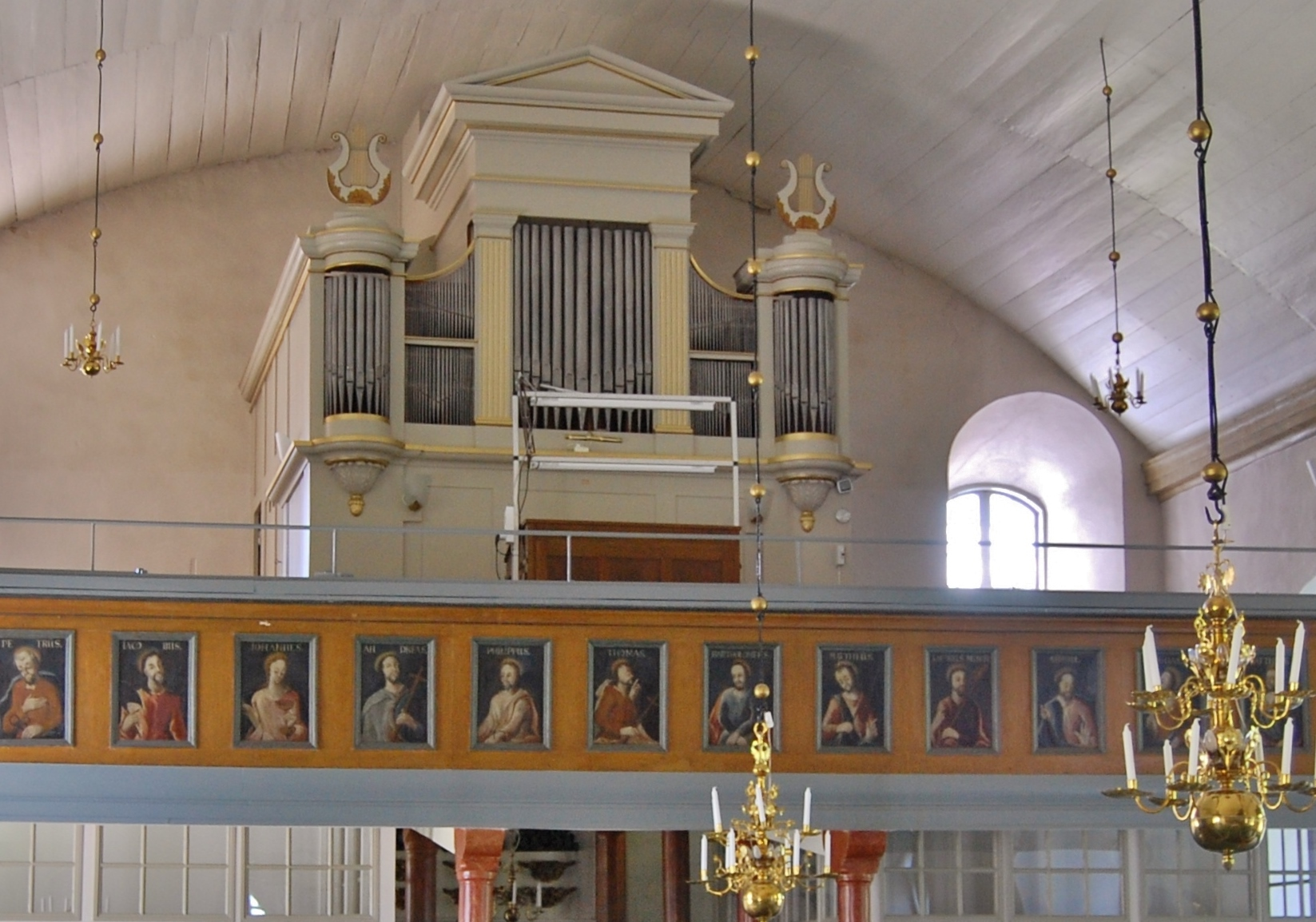 Kristvalla Church.Organ